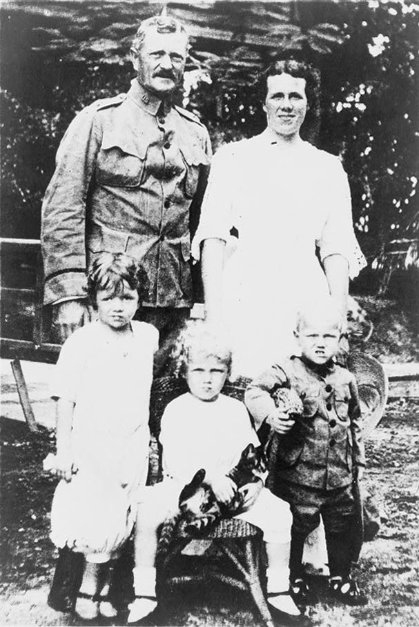 U.S. Army General John J. Pershing with his wife and three of their children. Pershing's wife and three daughters were killed in a fire in 1915; only his son Warren survived.